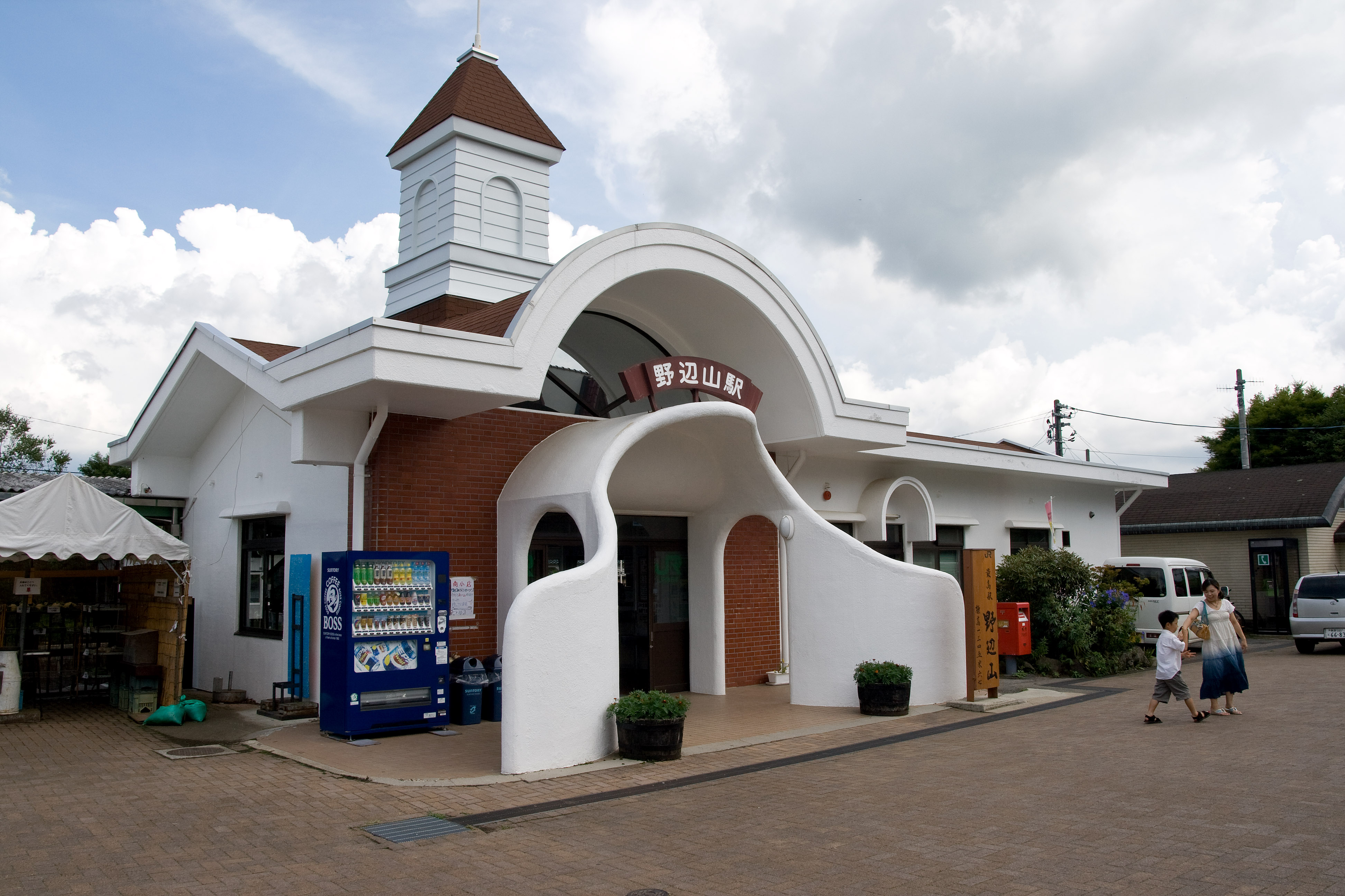 Nobeyama Station on the Koumi Line in Minamimaki, Nagano Prefecture, Japan